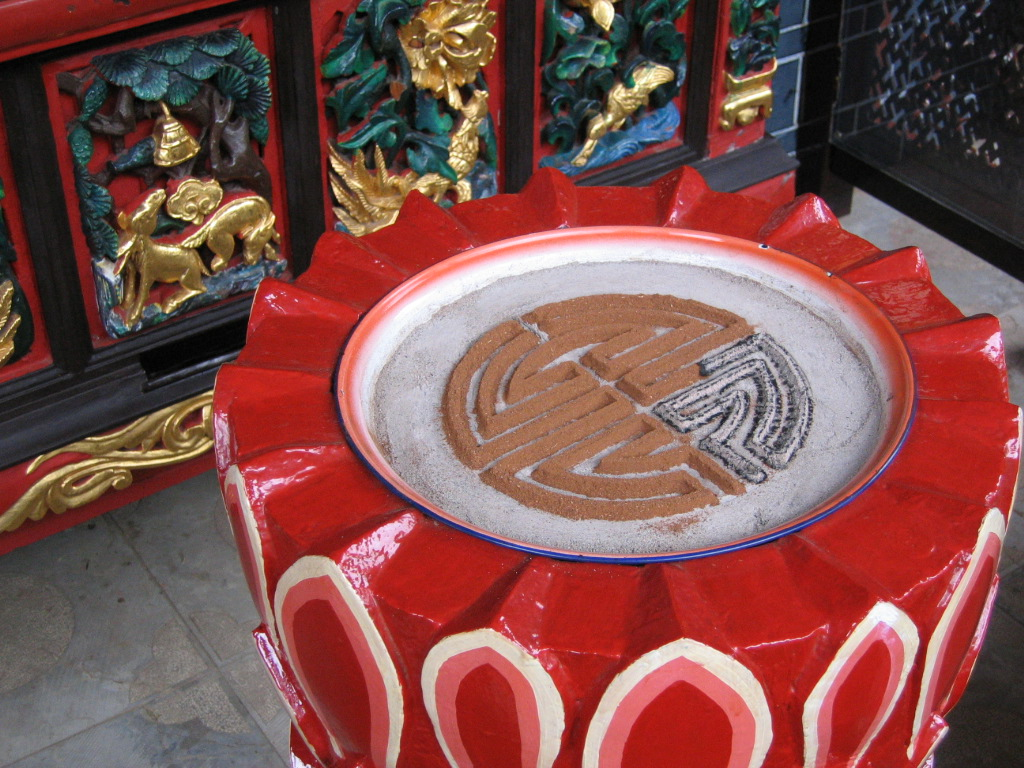 Incense art: a Chinese ideogram was drawn with incense, and then set on fire to burn slowly. Kunming, Yunnan province, China.